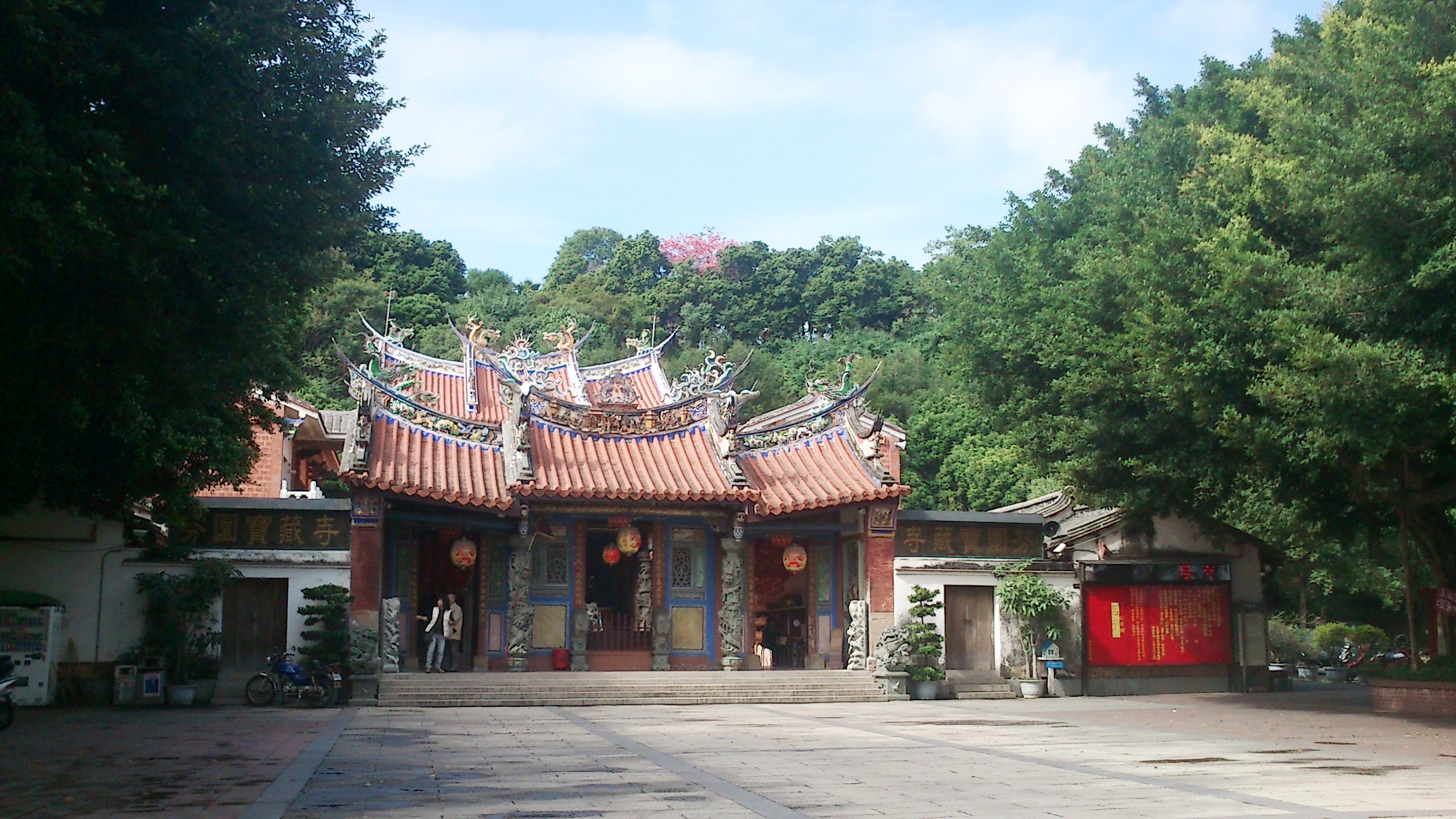 Baozan Temple in Fenyuan Township, Changhua County